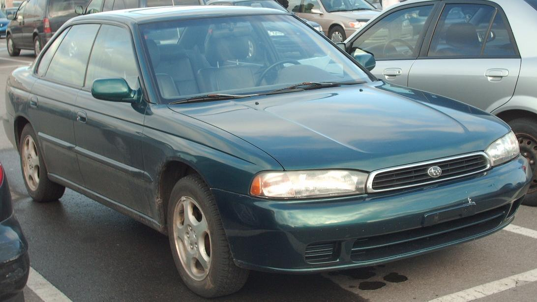 1995-1999 Subaru Legacy photographed in Montreal, Quebec, Canada.